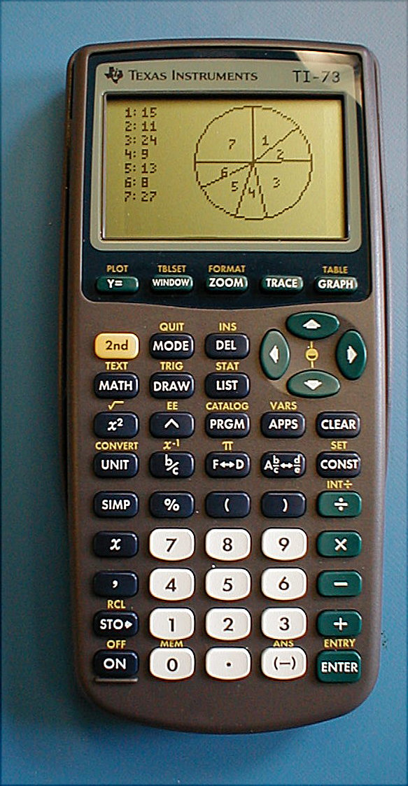 One of the models of the Ti 73 graphing calculator.